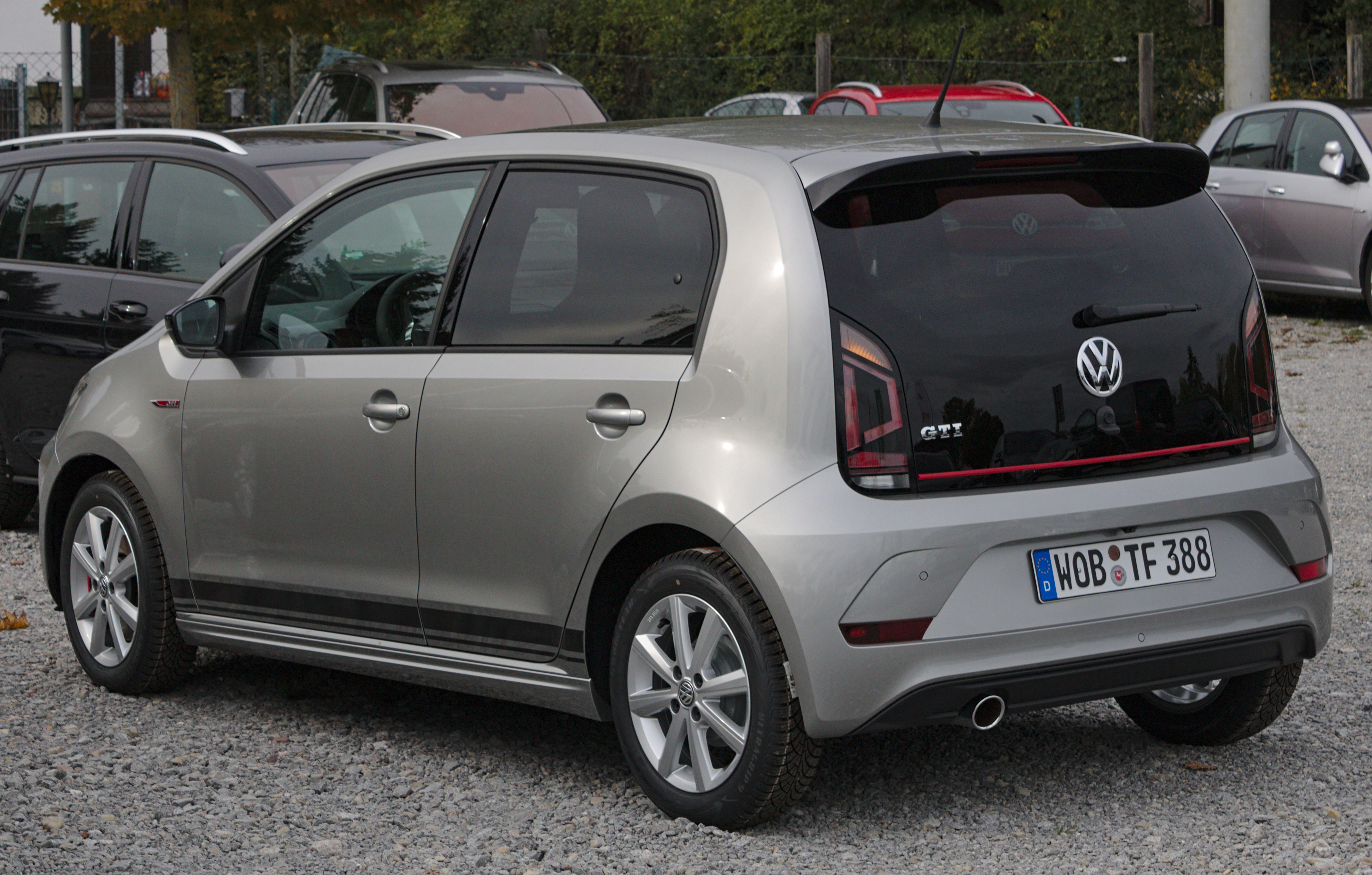 Volkswagen_up!_GTI in Stuttgart-Vaihingen